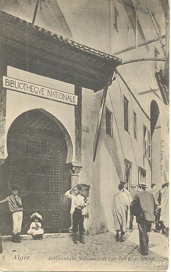 Door of the National Library of Algeria at Rue l'Etat-Major (street) in Algiers. Historical postcard image.